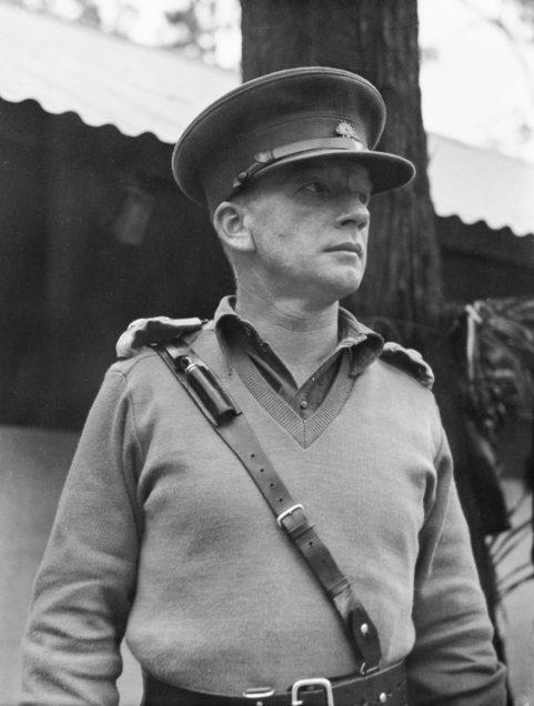 Lieutenant Colonel (later Major General) Noel Simpson at Ravenshoe, Queensland, March 1945. At the time the photograph was taken, Simpson was commanding officer of the Australian 2/43rd Infantry Battalion.